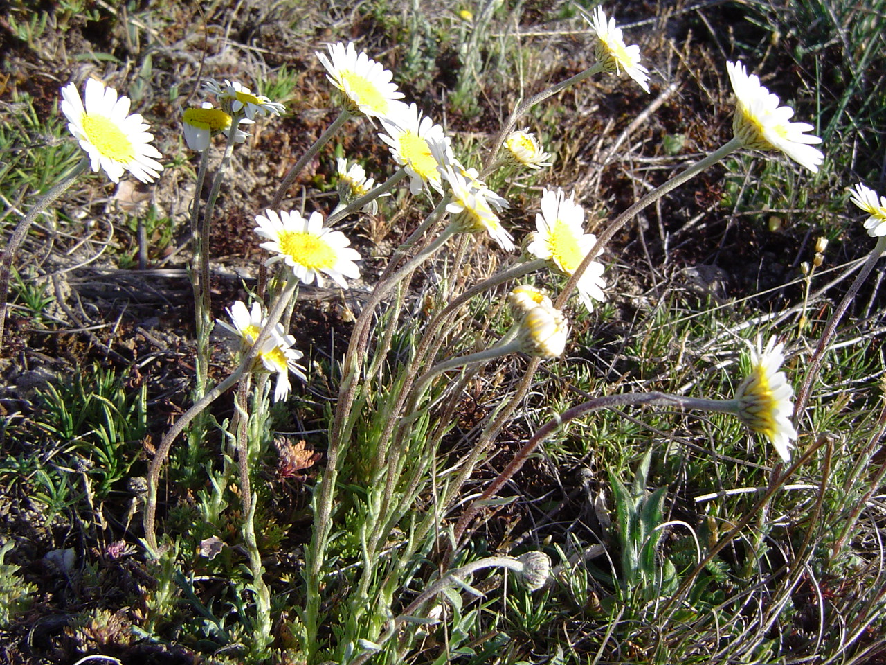 Leucanthemopsis pulverulenta